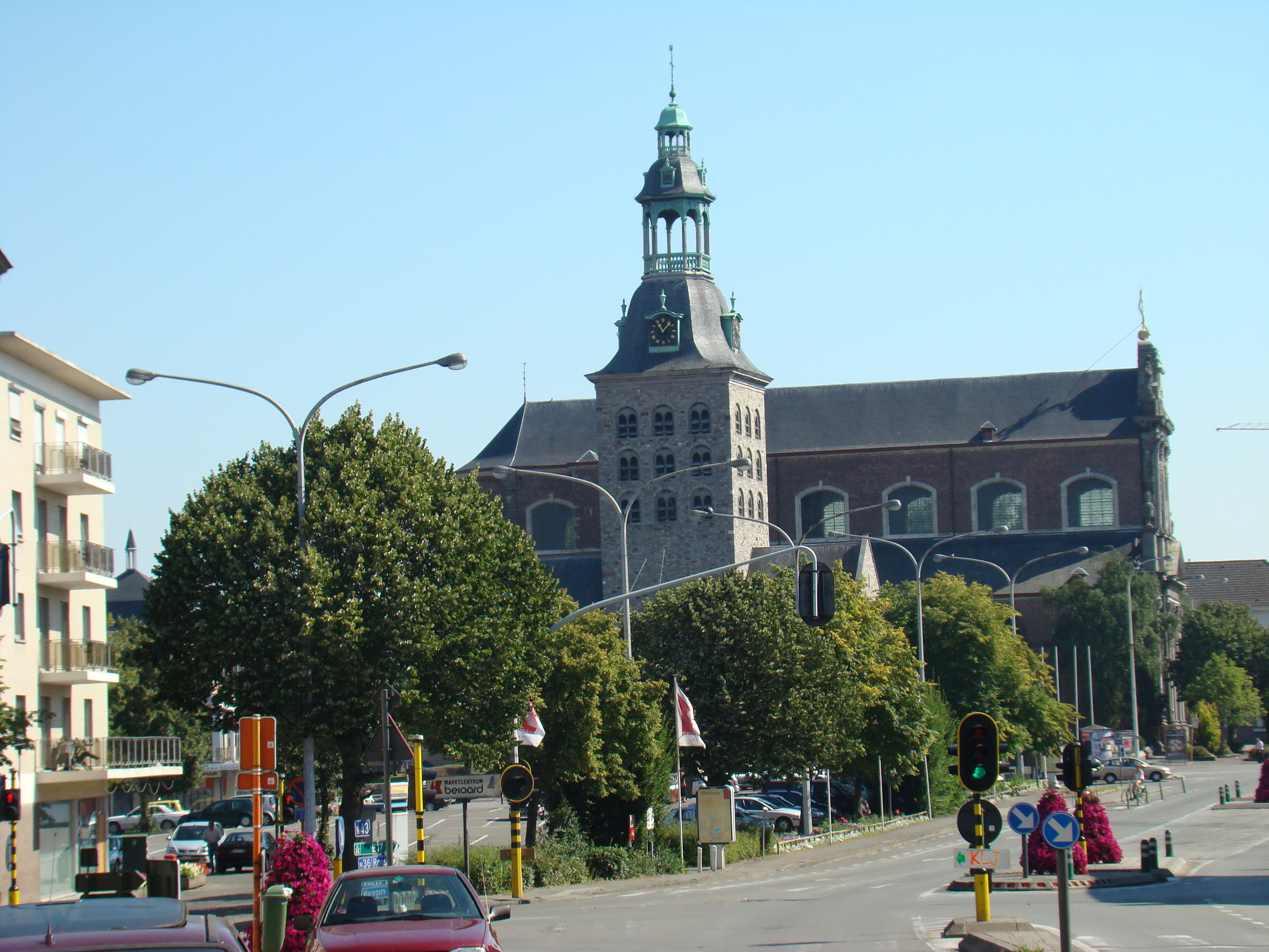 St-Salvators church Harelbeke (West Flanders, Belgium)